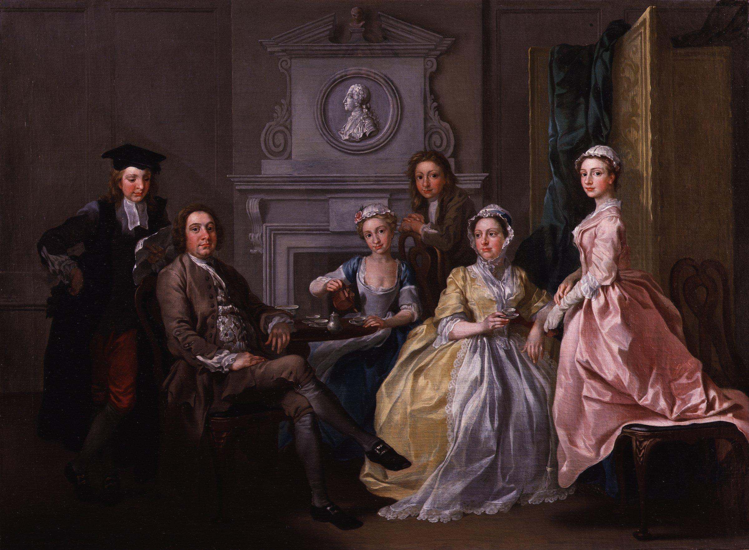 Jonathan Tyers and his family, by Francis Hayman. All images in this batch have a known author, but have manually examined for strong evidence that the author was dead before 1939, such as approximate death dates, birth dates, floruit dates, and publication dates.